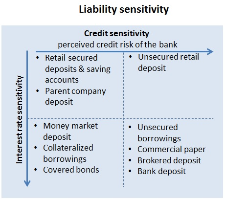 Provide a view of the main funding sources sensitivity to interest-rate and credit risk